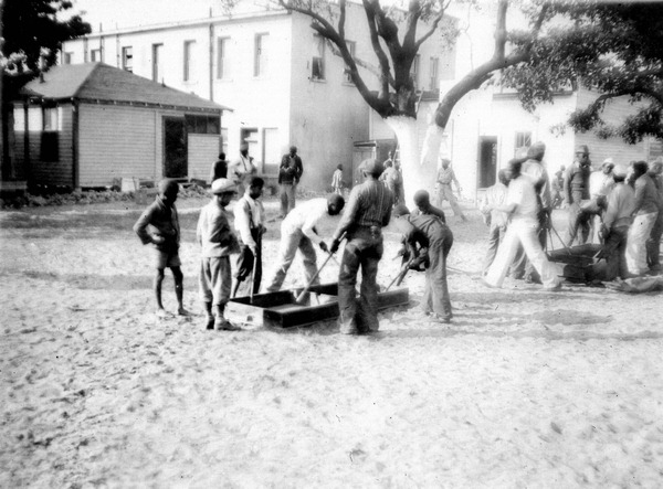 Boys playing box hockey: Miami, Florida picture